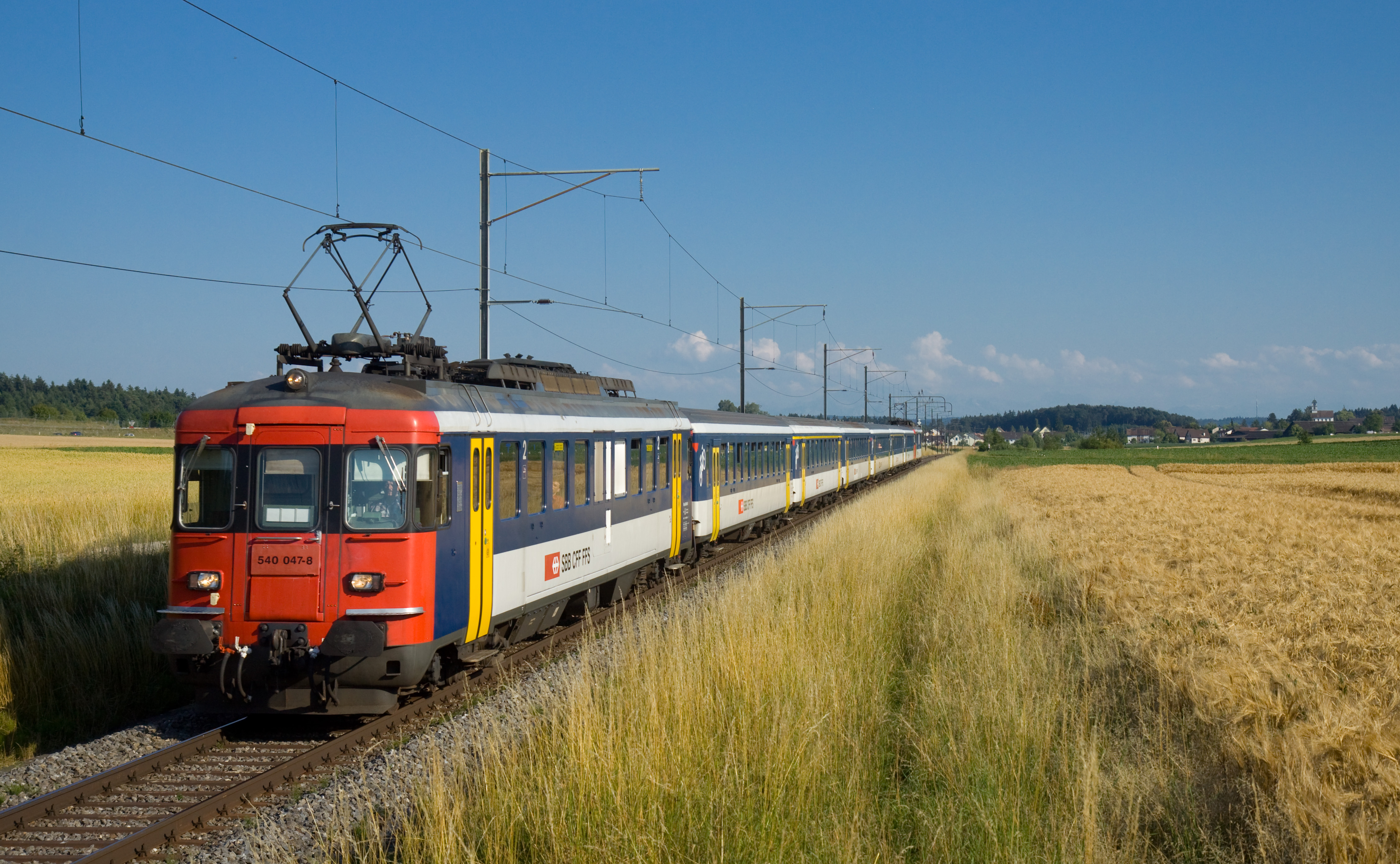 Two SBB RBe 540 haul six coaches "sandwiched" in between on the S11 service from Zürich Hardbrücke to Schaffhausen. The S11 service only runs during rush hour, so older rolling stock is used - The RBe 540 were built in the 1960s! The picture was taken between Henggart and Andelfingen, Switzerland.